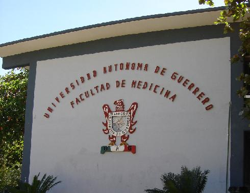 This is the Faculty of Medicine of The Autónoma de Guerrero University